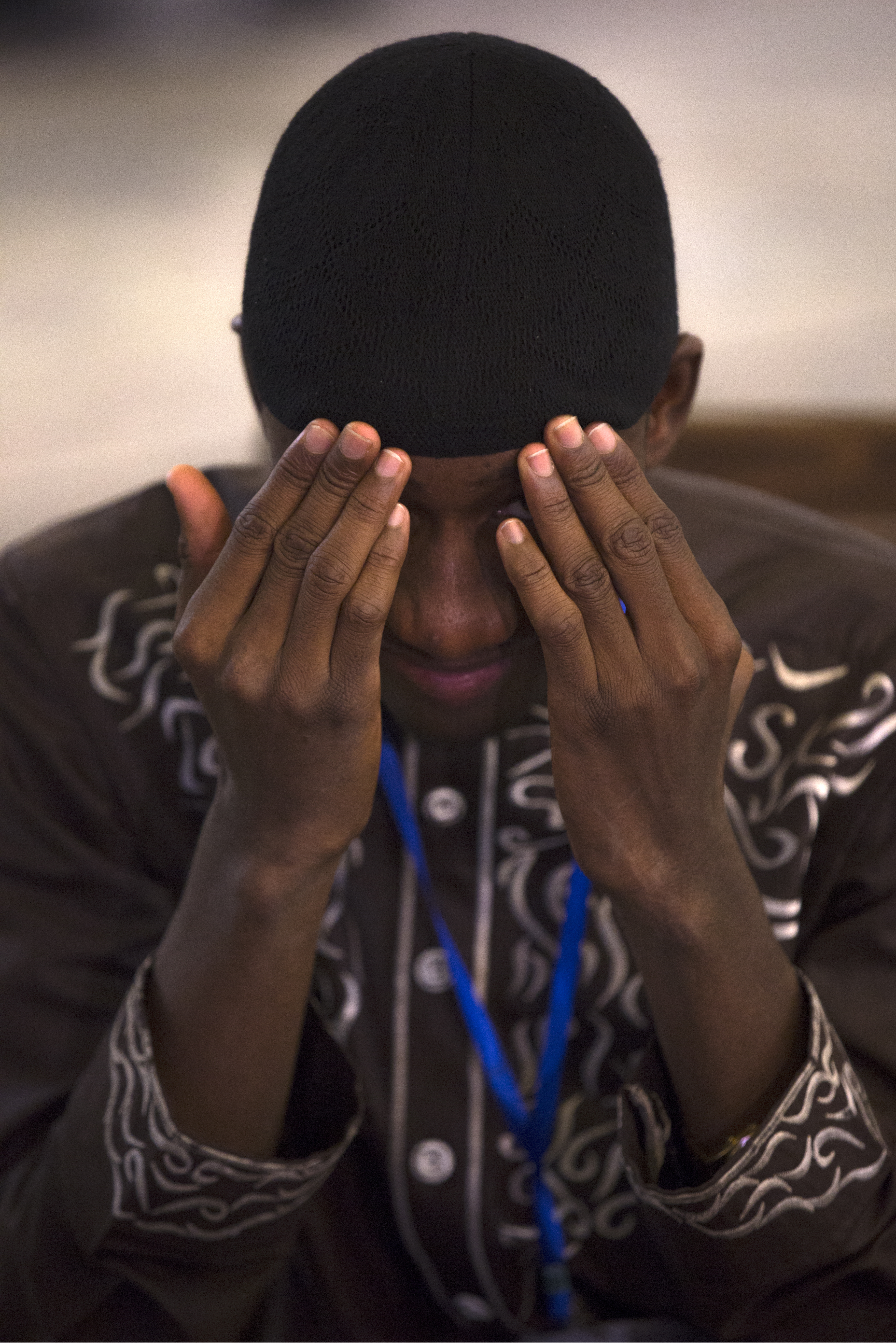 Al-Mustafa International University (MIU) (Arabic: جامعة المصطفىٰ العالمية; Persian: جامعة المصطفی العالمیه) is an international academic, Islamic and university-style seminary institute in Qom, Iran established in 1979. It has international branches and affiliate schools. Photos : International Quran Competition for Students of Islamic Seminary Schools Photographer: Mostafa Meraji